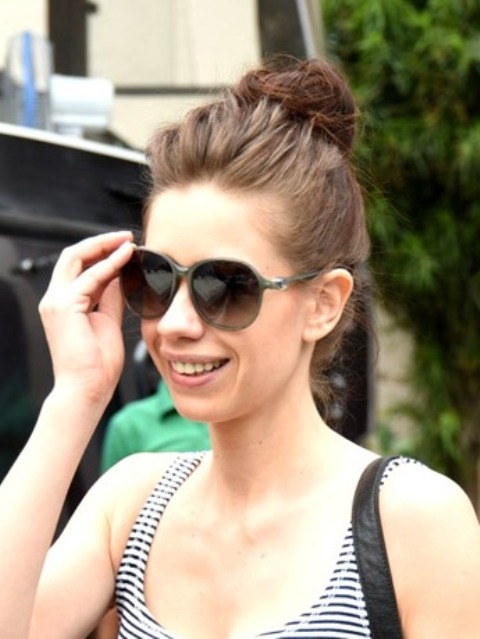 Kalki Koechlin snapped at an ad shoot